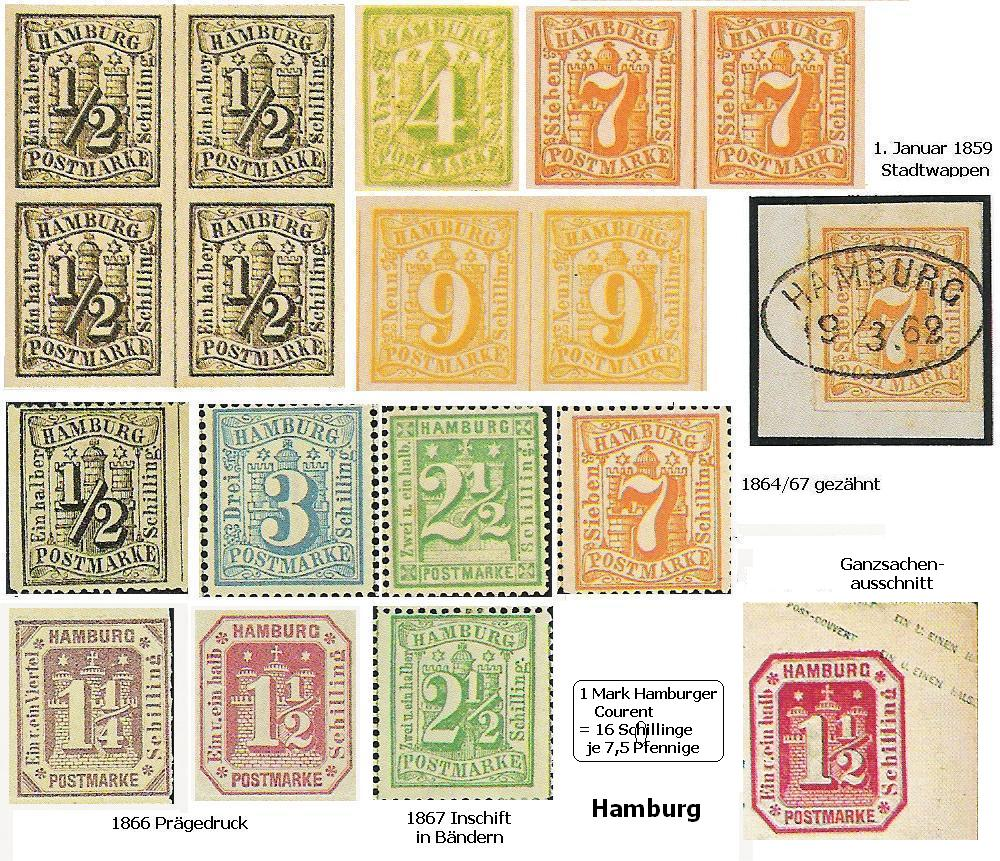 Stamps of the Hamburg City Post.